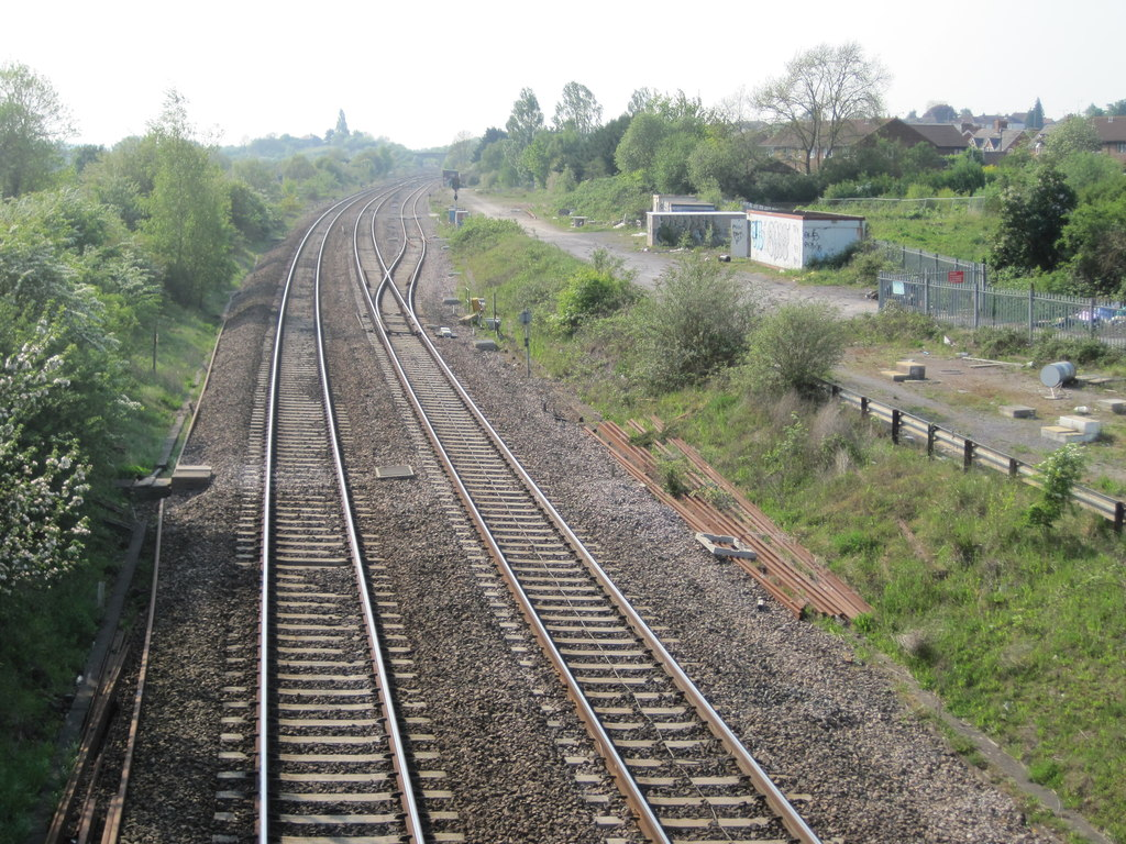 Wootton Bassett Junction railway station (site of).Opened in 1841 by the Great Western Railway on its line from London to Bristol, this station was rebuilt in 1903, and closed in 1965. View west towards the junction for South Wales and Bristol.